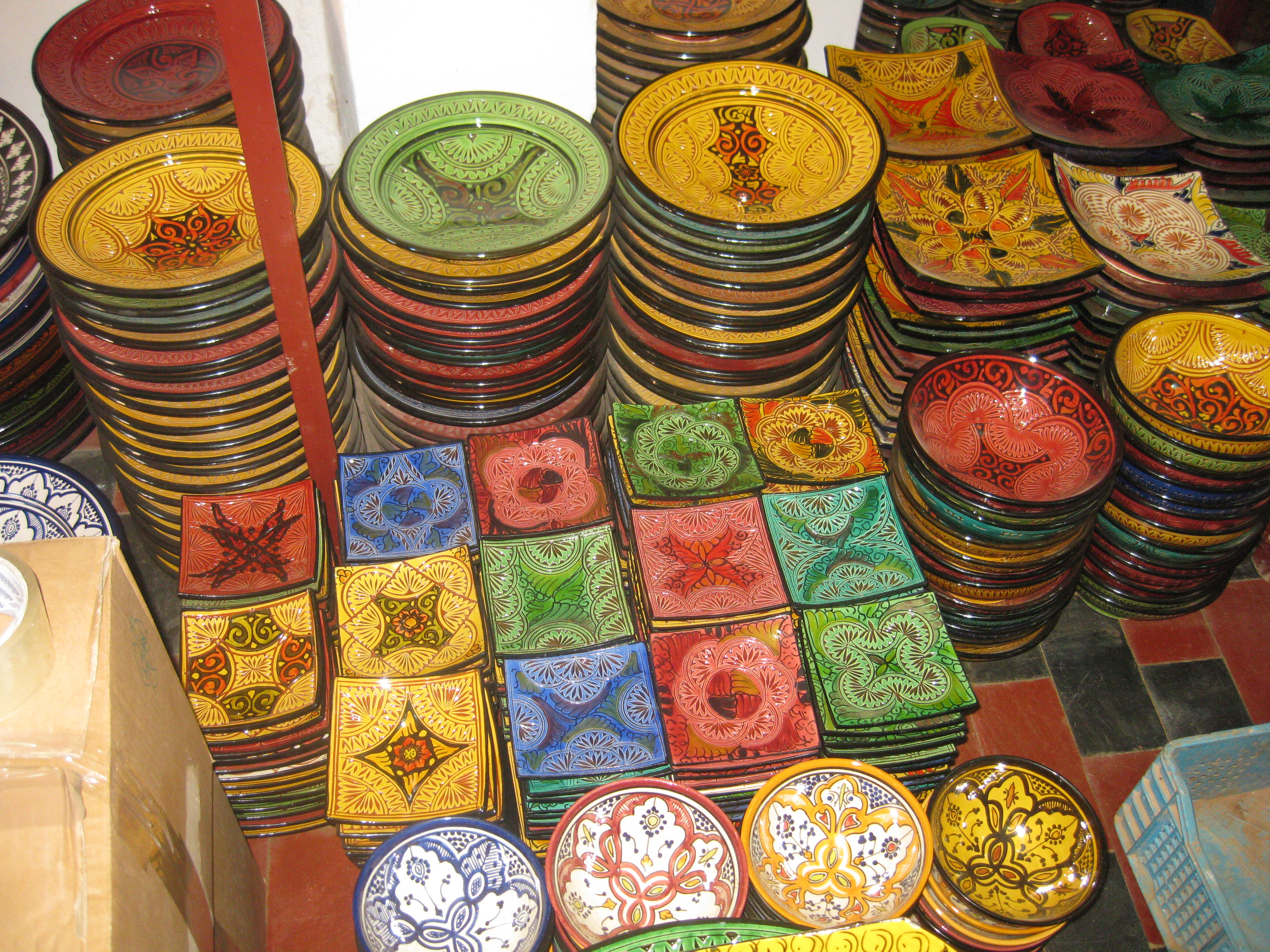 Plusieurs types d'usage pour la potreie de Safi